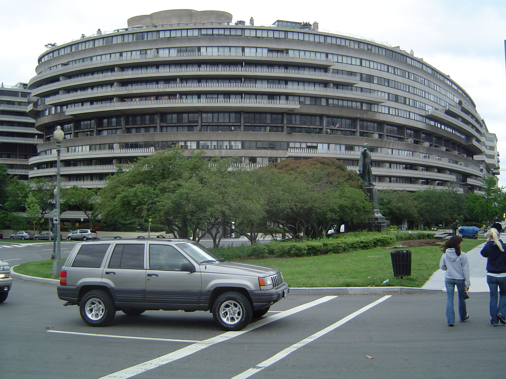 In front of the Watergate